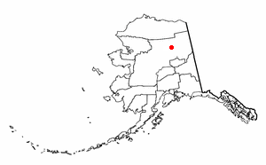 Adapted from Wikipedia's AK borough maps by Seth Ilys.